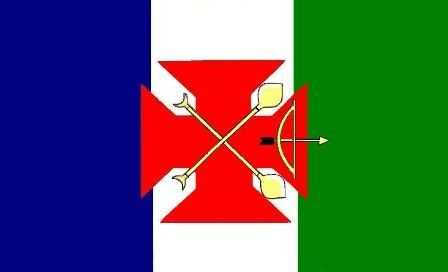 Flag of the municipality of Cameta